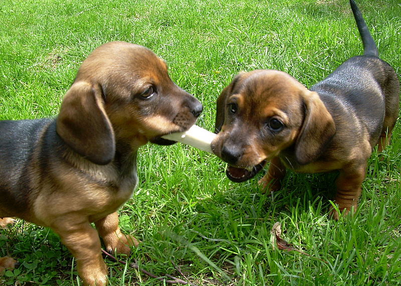 Six-week-old dachshunds during play